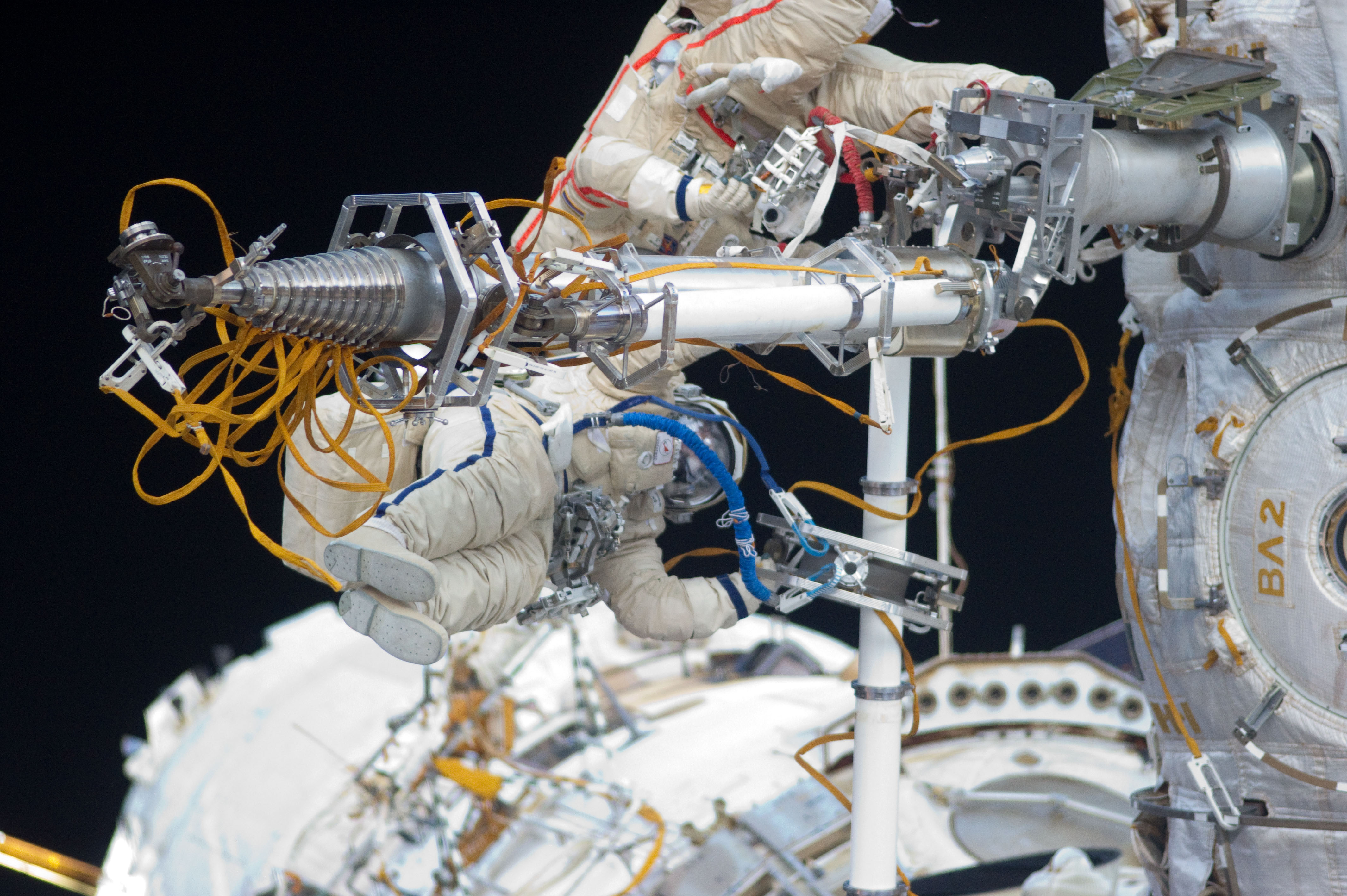 Russian cosmonauts Gennady Padalka (top), Expedition 32 commander; and Yuri Malenchenko, flight engineer, participate in a session of extravehicular activity (EVA) to continue outfitting the International Space Station. During the five-hour, 51-minute spacewalk, Padalka and Malenchenko moved the Strela-2 cargo boom from the Pirs docking compartment to the Zarya module to prepare Pirs for its eventual replacement with a new Russian multipurpose laboratory module. The two spacewalking cosmonauts also installed micrometeoroid debris shields on the exterior of the Zvezda service module and deployed a small science satellite.